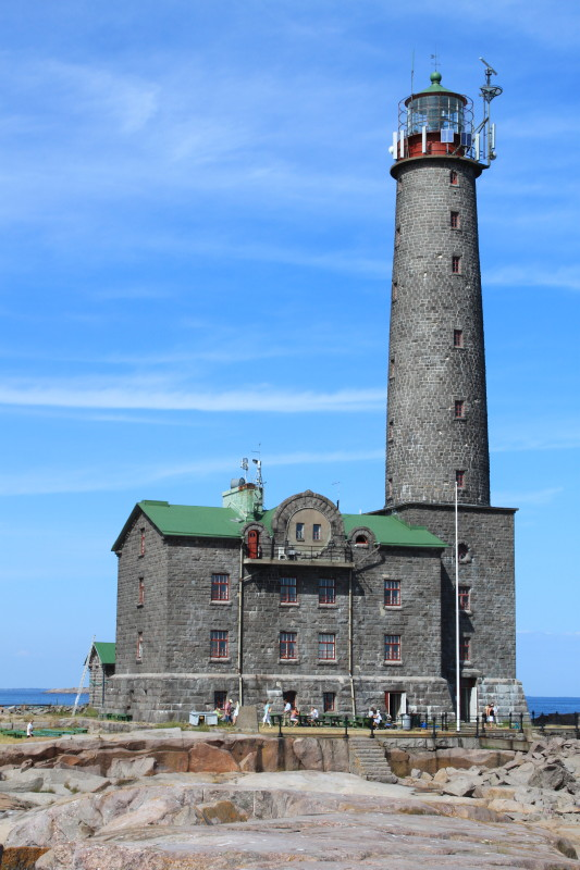 Bengtskär lighthouse